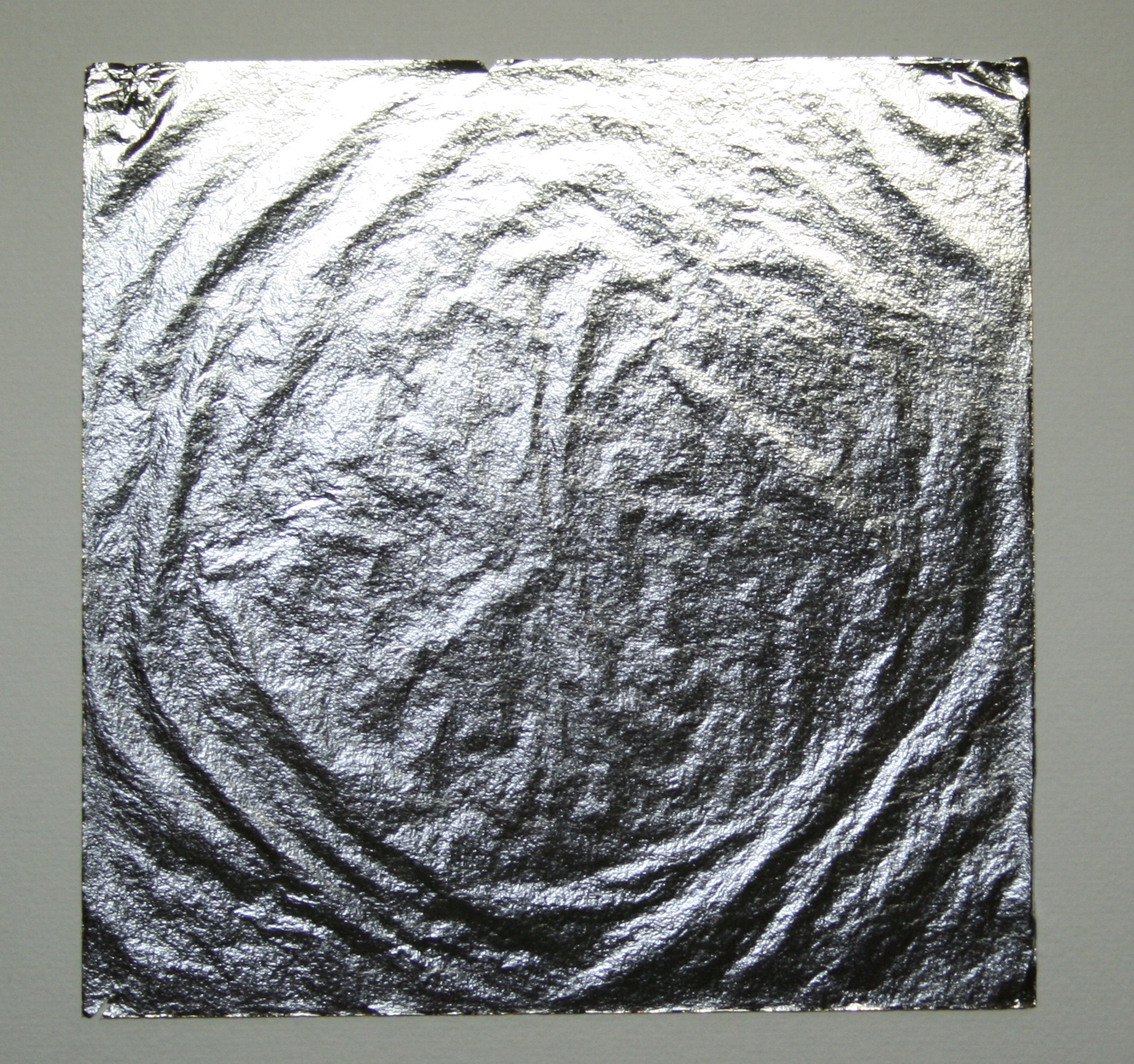 genuine silver leaf